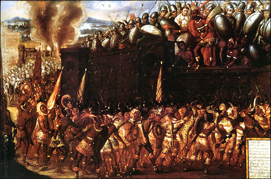 The death of Moctezuma at the hands of his own people Oil on canvas 47 ¼ x 78 ¾ in. (120 x 200 cm.)